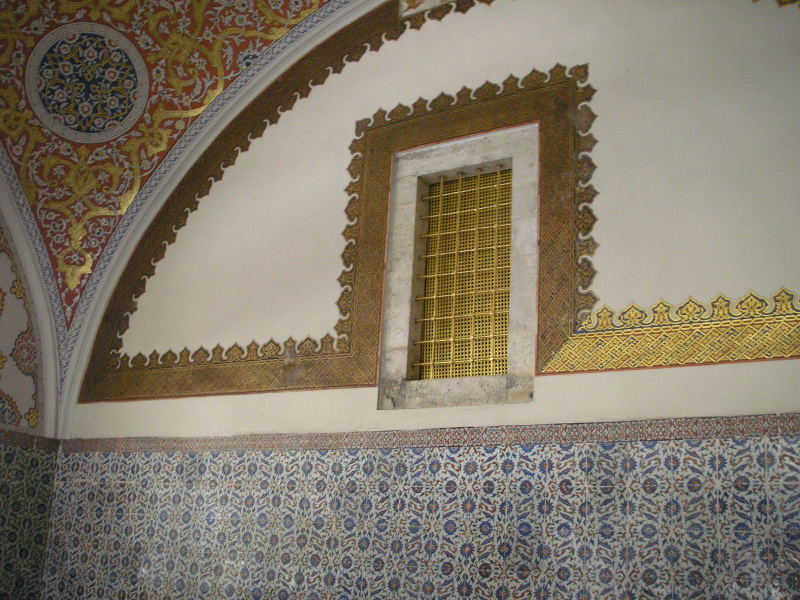 The Imperial Council Hall (Kubbealtı / Divan-ı Hümâyûn) where the veziers met in council with the sultan. The fountain in the middle was to obscure secret conversations. The golden window enabled the sultan or the valide sultan to eavesdrop into the conversation without being noticed.